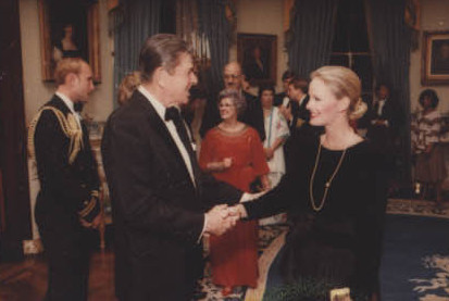 President Ronald Reagan, John McCain, and Cindy McCain (Not in all Photos) (5-36) Dinner for new members of Congress